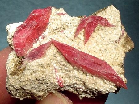 Rhodonite Locality: Morro da Mina Mine, Conselheiro Lafaiete (old Queluz de Minas), Minas Gerais, Southeast Region, Brazil (Locality at ) Size: 5.0 x 4.6 x 2.0 cm. DISCRETE, ISOLATED, gemmy, cherry-red rhodonite crystals on a beautifully contrasting white-coated matrix specimen from the NEW FIND in Brazil. This is the first time, that we have offered discrete crystals at auction and they are RARE. The sharp, pointed crystal is nearly perfect at 3.0 cm. The other large crystal is well-formed, but is probably contacted on the top. This remains a VERY SHOWY, HIGHLY REPRESENTATIVE and excellent specimen for the species and it is not from Broken Hill. This piece is particularly aesthetic.